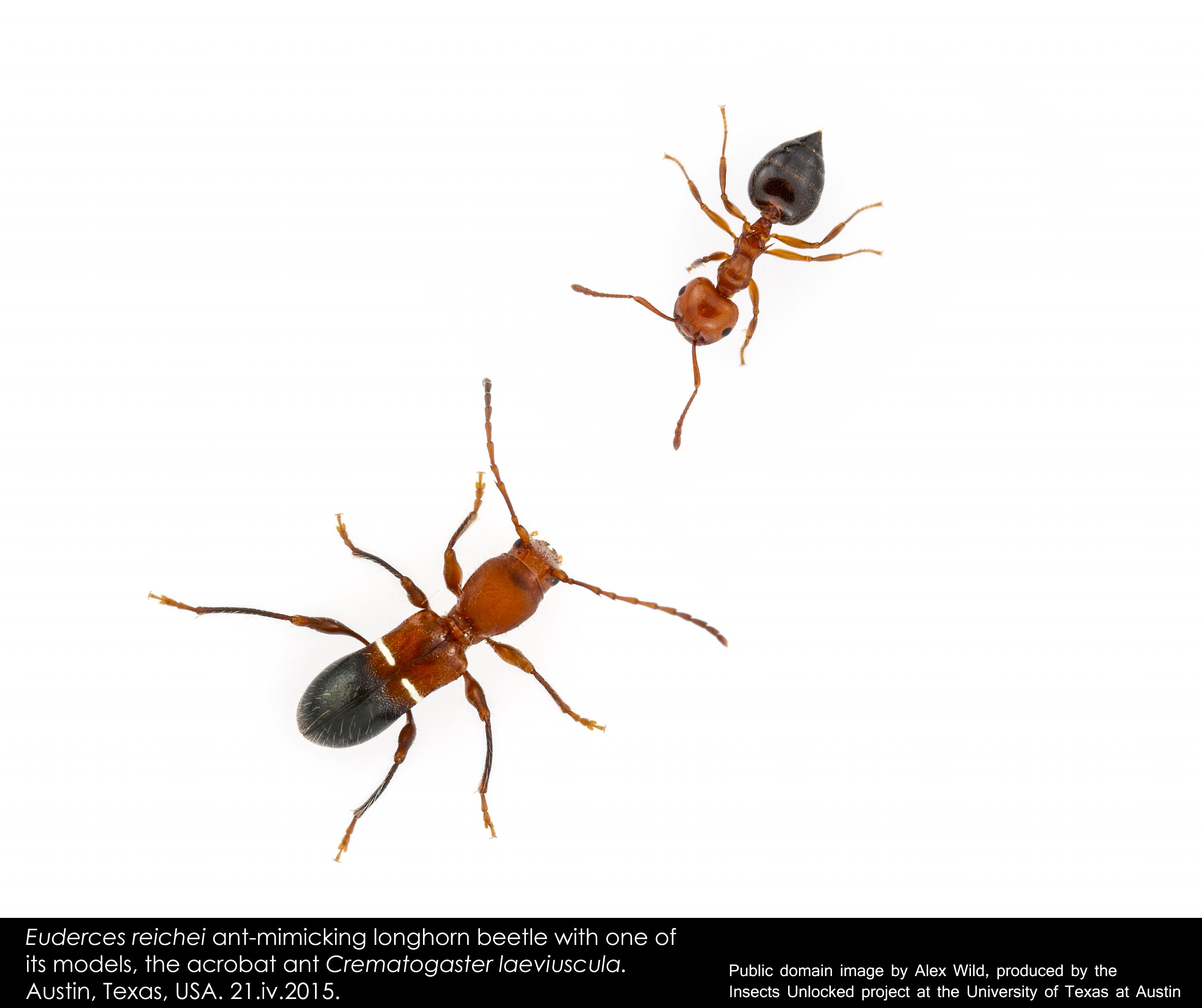 An ant-mimic longhorn beetle with one of its hosts, the acrobat ant Crematogaster laeviuscula. Public domain image by Alex Wild, produced as part of the Insects Unlocked project at the University of Texas at Austin.